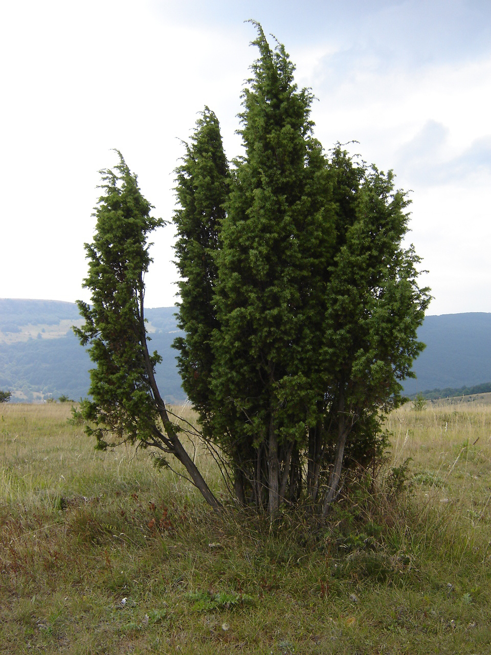 Juniperus deltoides shrubby tree, Bulgaria.